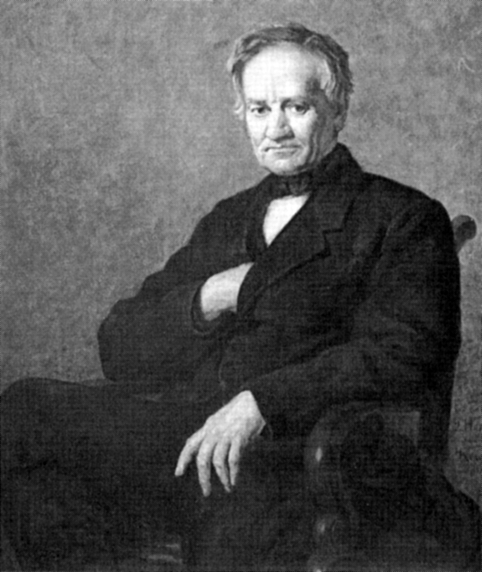 1866 painting of German naturalist and ichthyologist Eduard Rüppell (1794–1884)